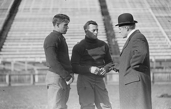 Walter Logan (left), John Kilpatrick, Ralph Bloomer (right), Yale University, on field